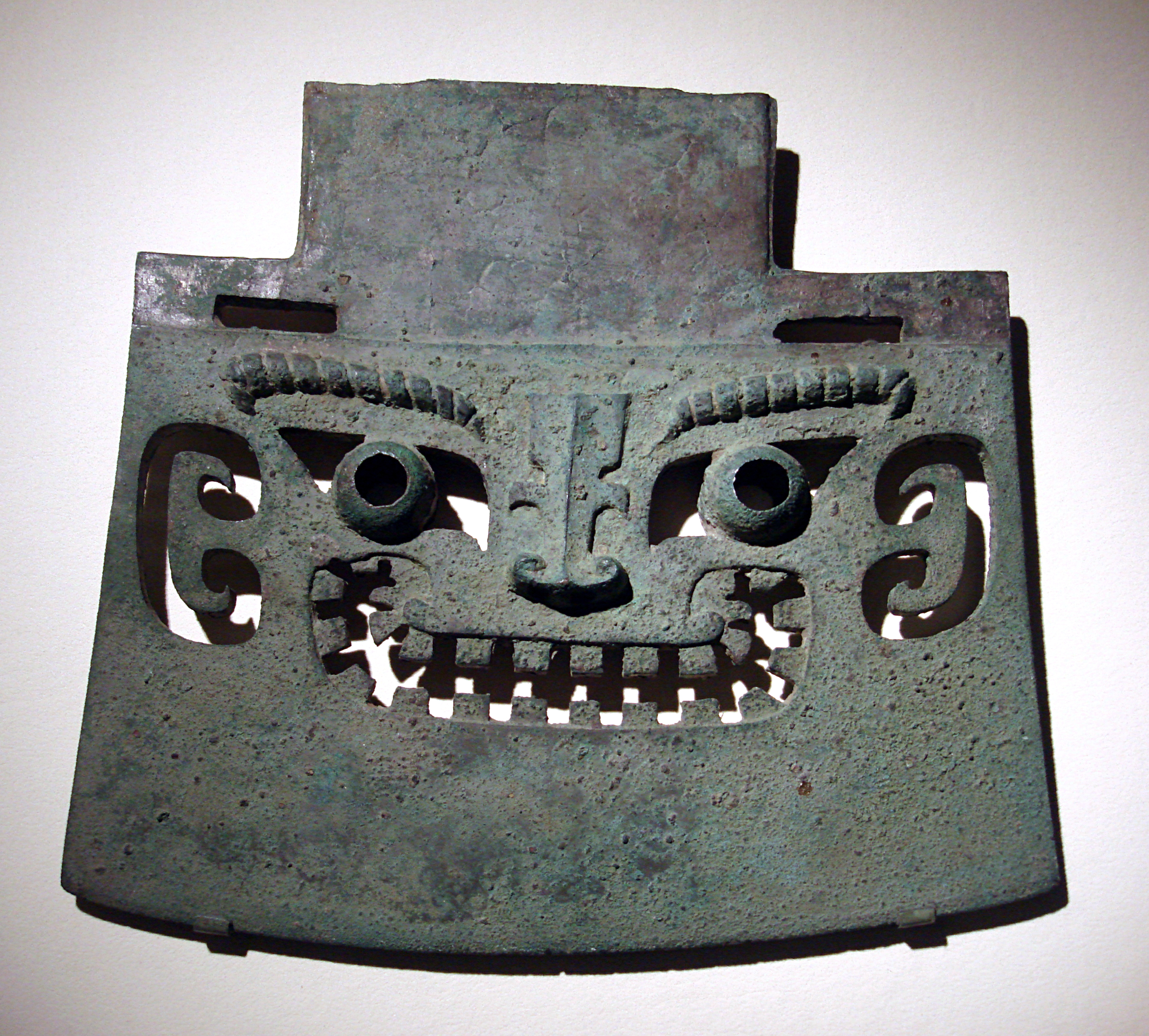 Bronze Battle Axe Shang Dynasty {1600 - 1046 B.C.) Excavated at Yidu, Shangdong Province, 1956 This axe was used in hand-to-hand combat, and was also a ritual object symbolizing power and military authority. The tomb it came from likely belonged to a man of wealth and influence.